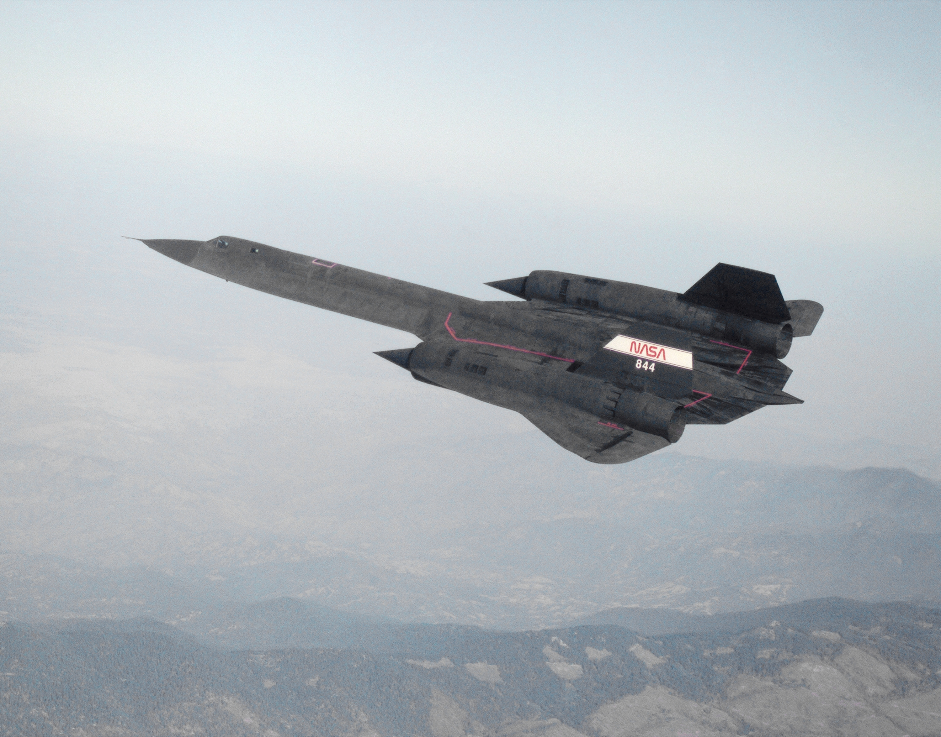 NASA 844, an SR-71A flown by NASA’s Ames-Dryden Flight Research Facility (later, Dryden Flight Research Center), Edwards, California, cruises over the Tehachapi Mountains during a September 1992 flight. The aircraft is one of two SR-71As initially loaned to NASA by the Air Force for use as high-speed, high-altitude testbeds for research in such areas as aerodynamics, propulsion, structures, thermal protection materials, and instrumentation. Data from the SR-71 research program could aid designers of future supersonic-hypersonic aircraft and propulsion systems.